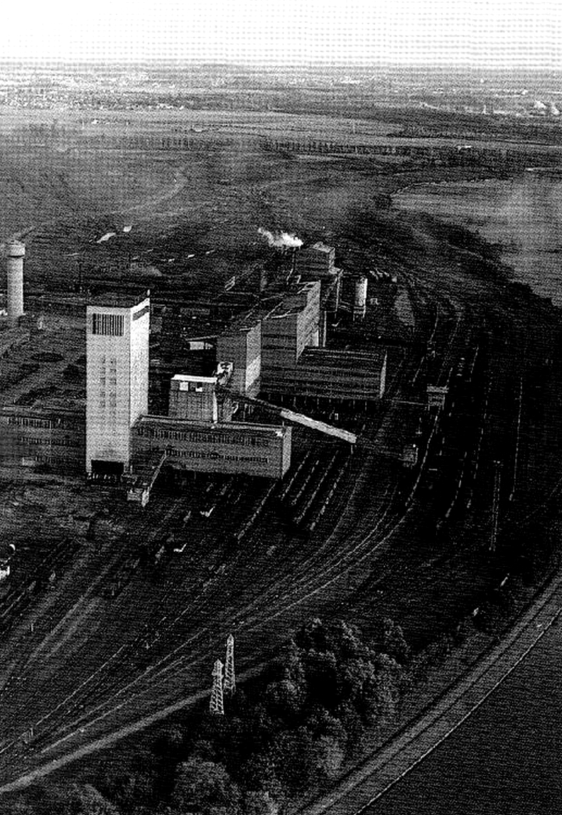 Compagnie des mines de Dourges, Pas-de-Calais, France.